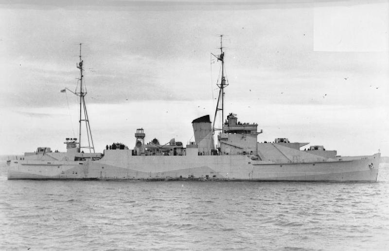 Photograph of HMS Tynwald.